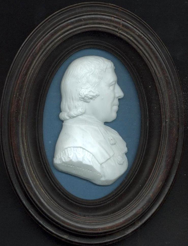 Tassie medallion of Reverend Henry Hunter (1741-1802) Hunterian Museum & Art Gallery collections, catalogue number GLAHM 112117